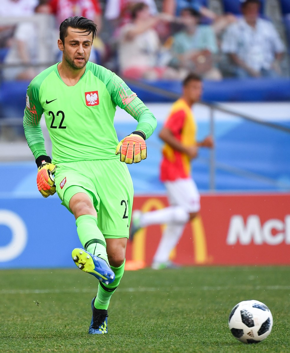 Łukasz Fabiański